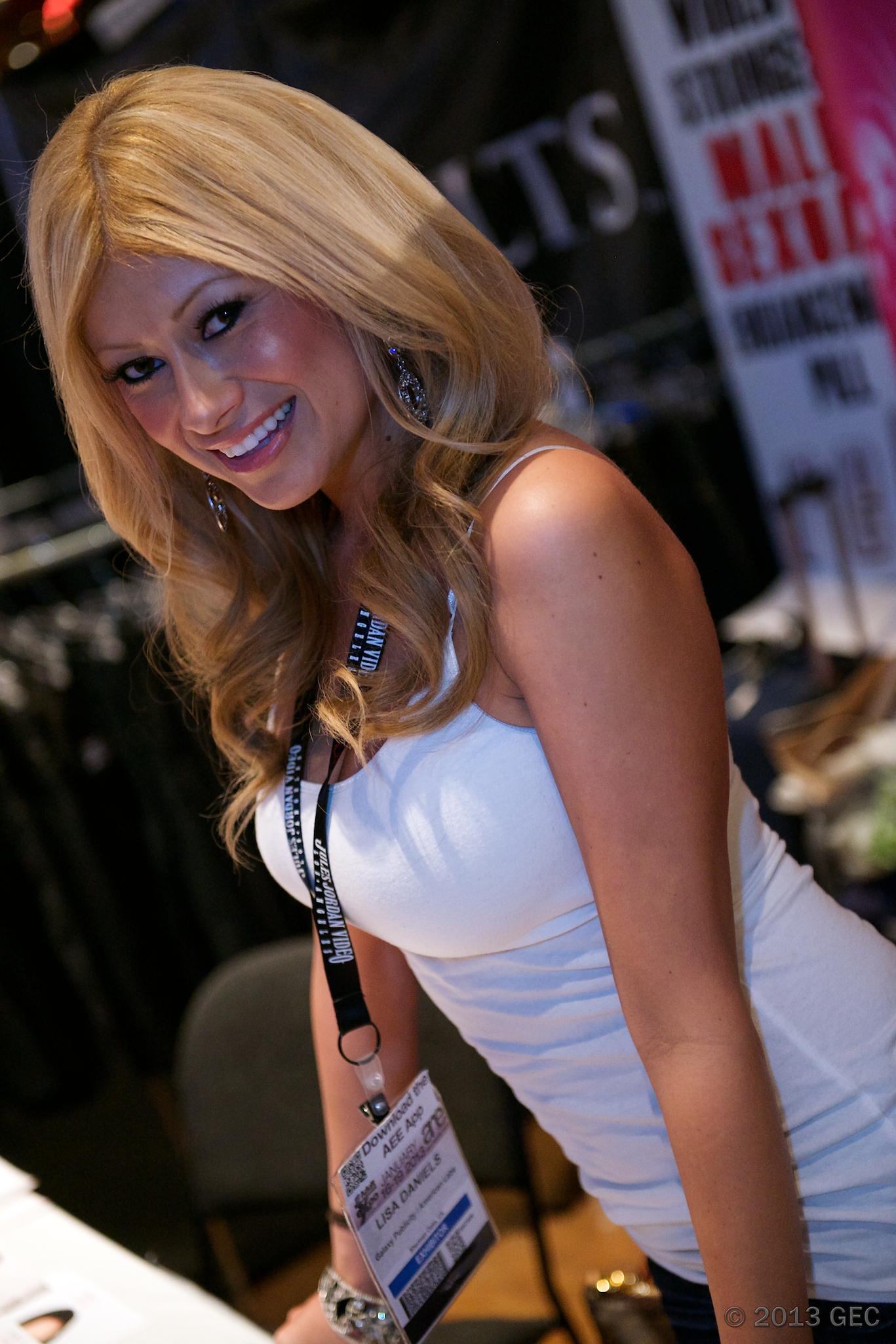 2013 AVN Adult Entertainment Expo AEE at Hard Rock Hotel - Las Vegas. 2013 © GEC.